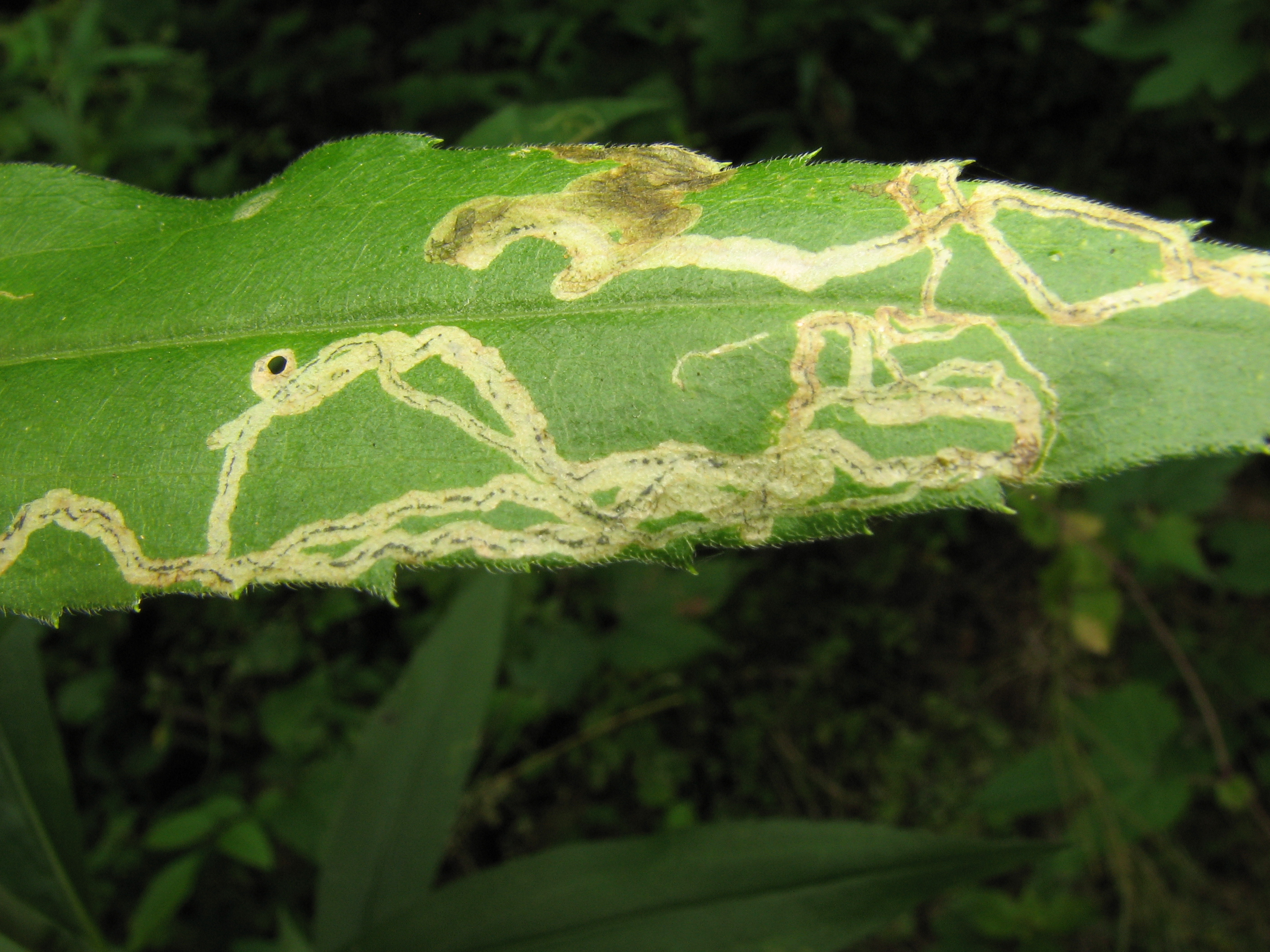 Mines in goldenrod leaf made by Phytomyza (albiceps species group). Pennypack, Montgomery County, Pennsylvania, USA.